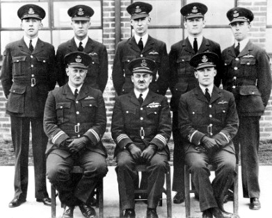 Pearce, WA. C.1938. Officers attached to RAAF base when it was first opened. Rear (L. TO R.): Flying Officers I.S. Yeaman, T.S. Ingledew, L.W. Law, J. Daniels, H.G. Acton. Sitting: Flight Lieutenant J.R. Fleming, Wing Commander R.J. Brownell (Commanding Officer), Flying Officer Colin T. Hannah (Adjutant). (Donor: P. Hannah)